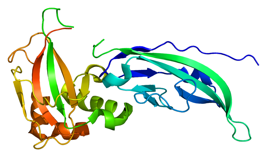 Structure of the DAG1 protein. Based on PyMOL rendering of PDB 1u2c.